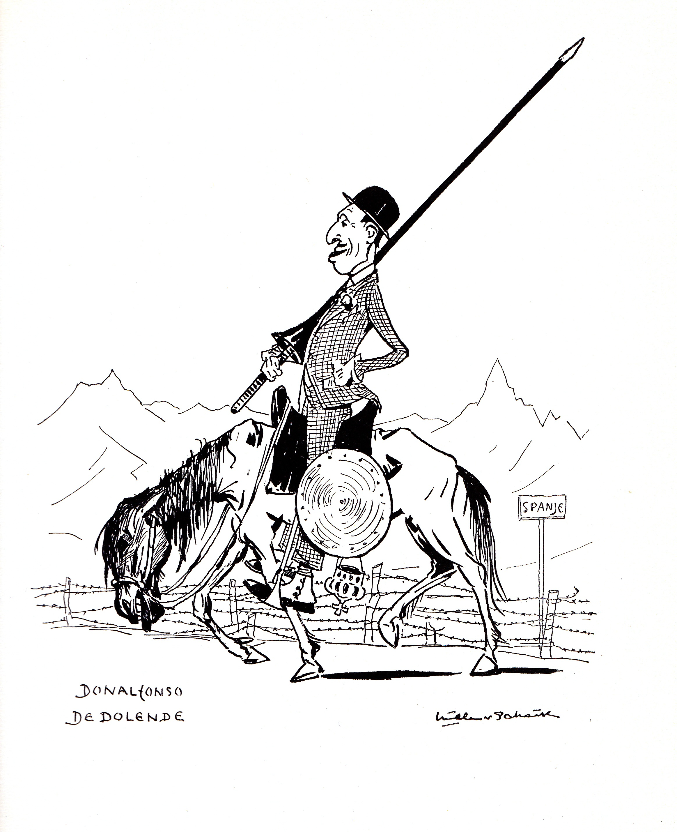 Alfonso XIII of Spain. Caricature drawn by Willem van Schaik (1876-1938)